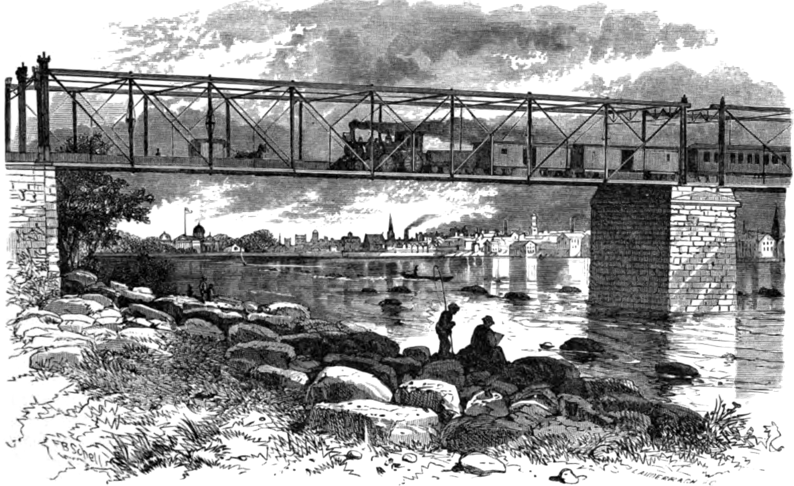 Illustration of Lower Trenton Bridge, crossing the Delaware River at Trenton, New Jersey. Operated by the Pennsylvania Railroad.